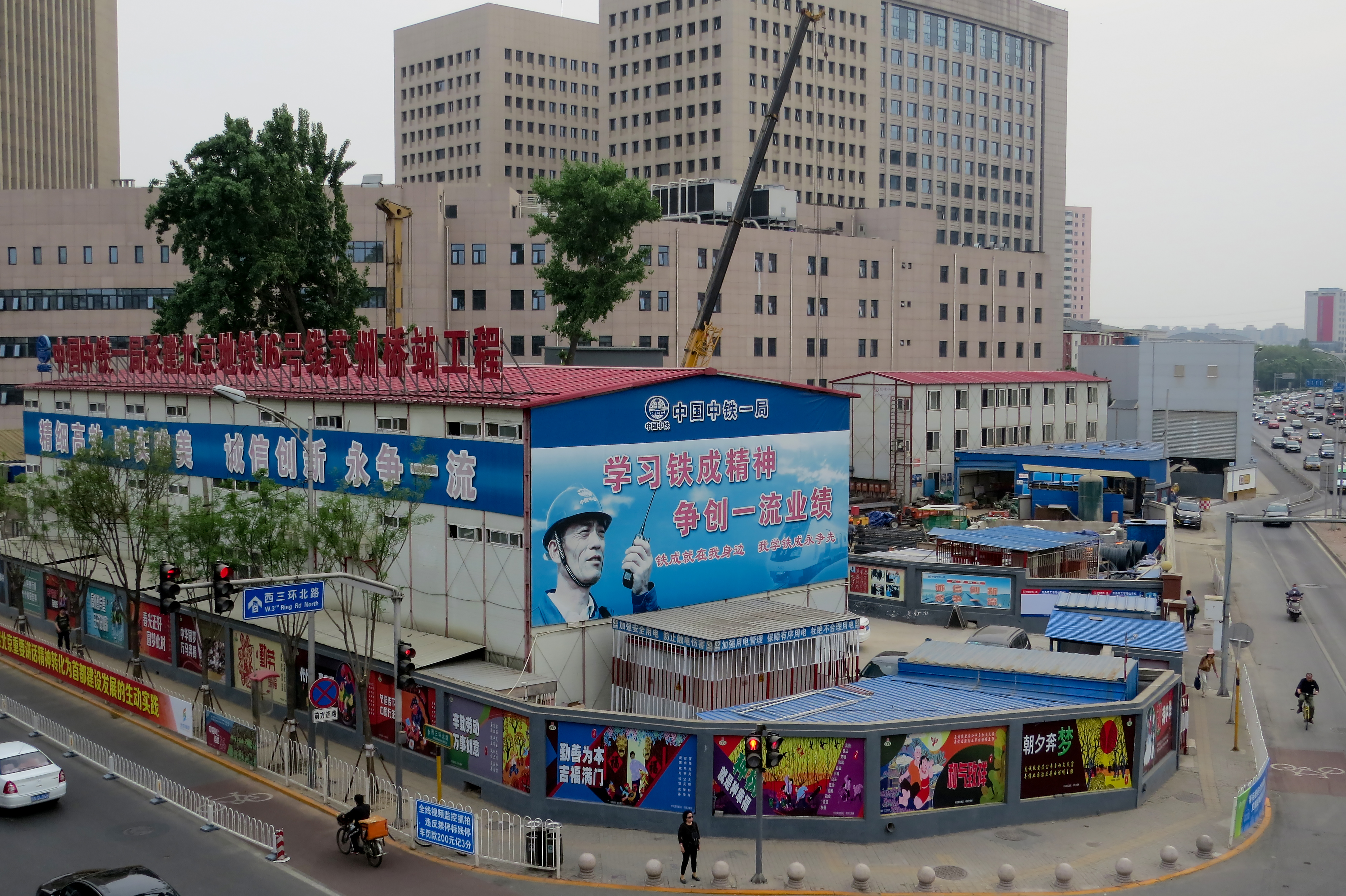 Built as an interchange station between L12 and L16.